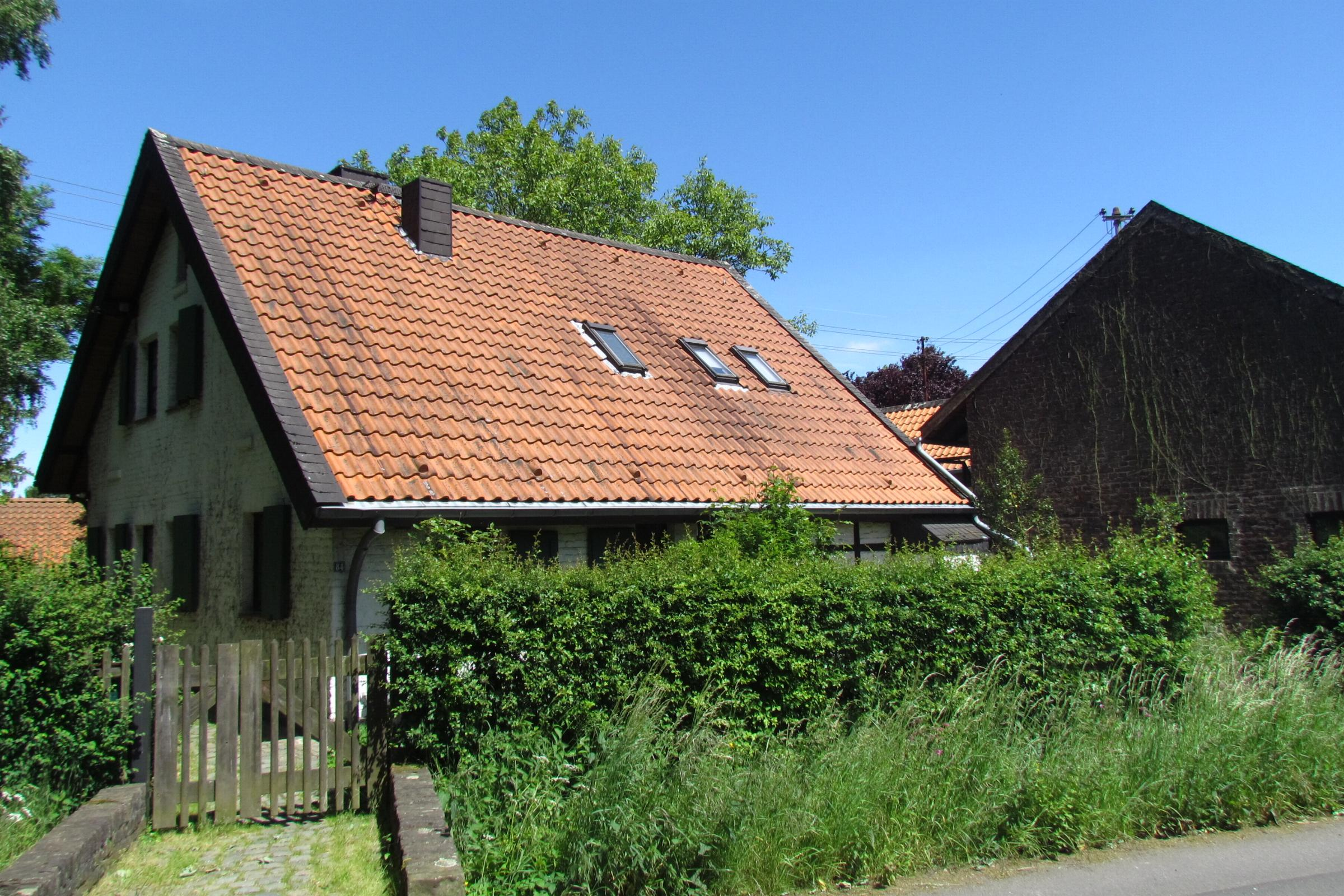 This is a photograph of an architectural monument.It is on the list of cultural monuments of Korschenbroich